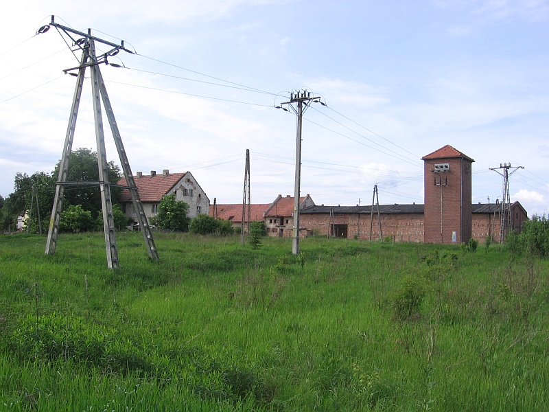 Lesica settlement in Wrocław, Poland